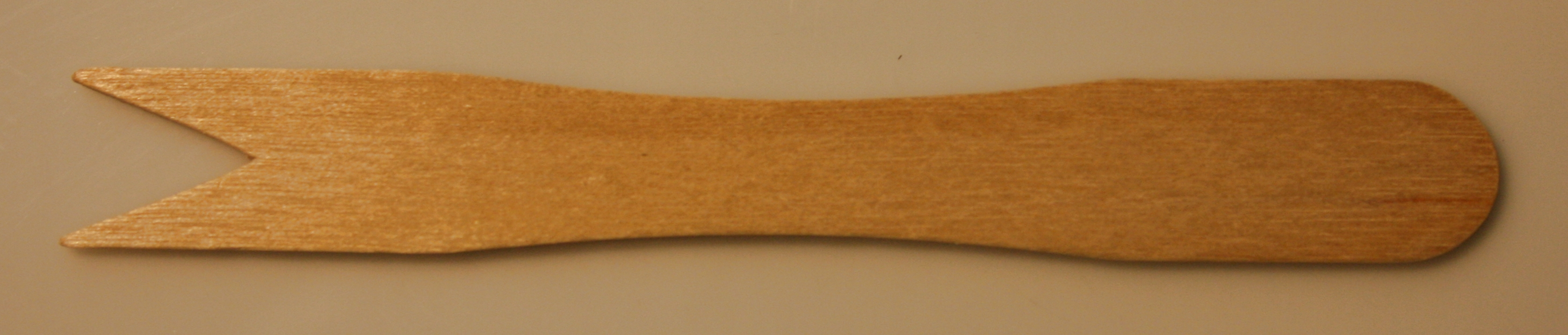 Wooden fork for fries